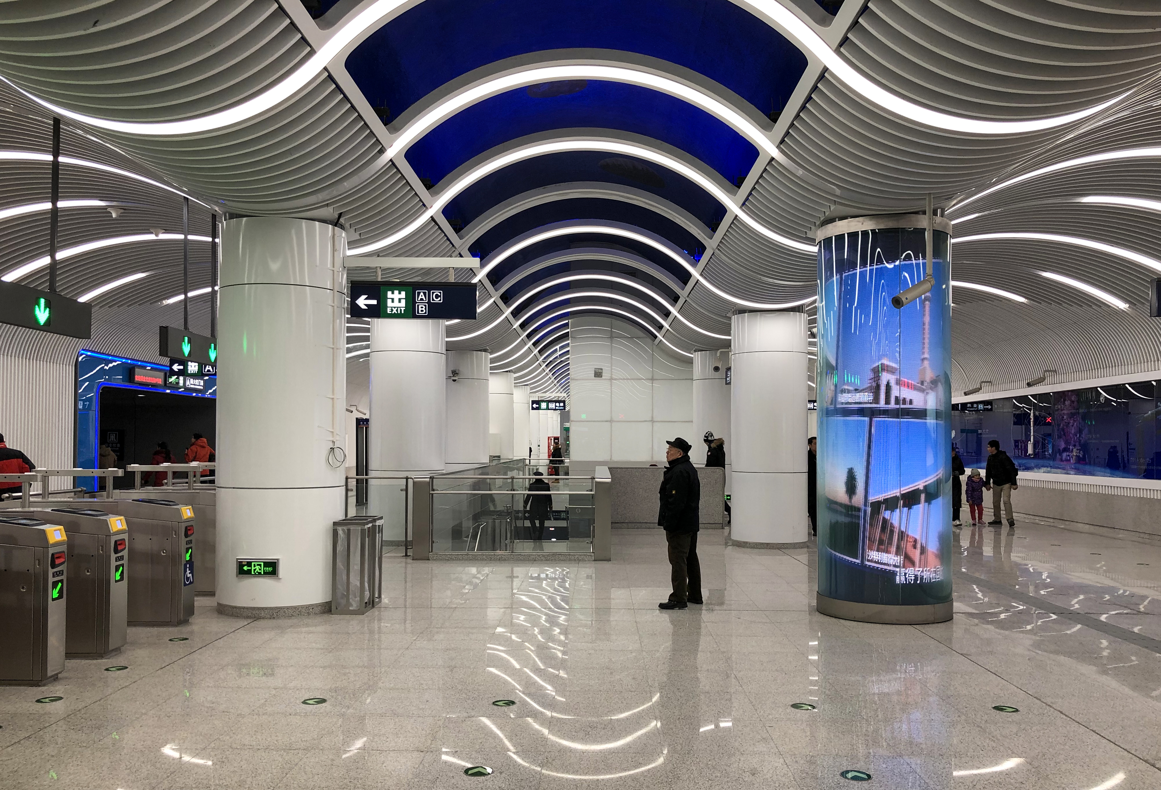 Two pillars have screens.